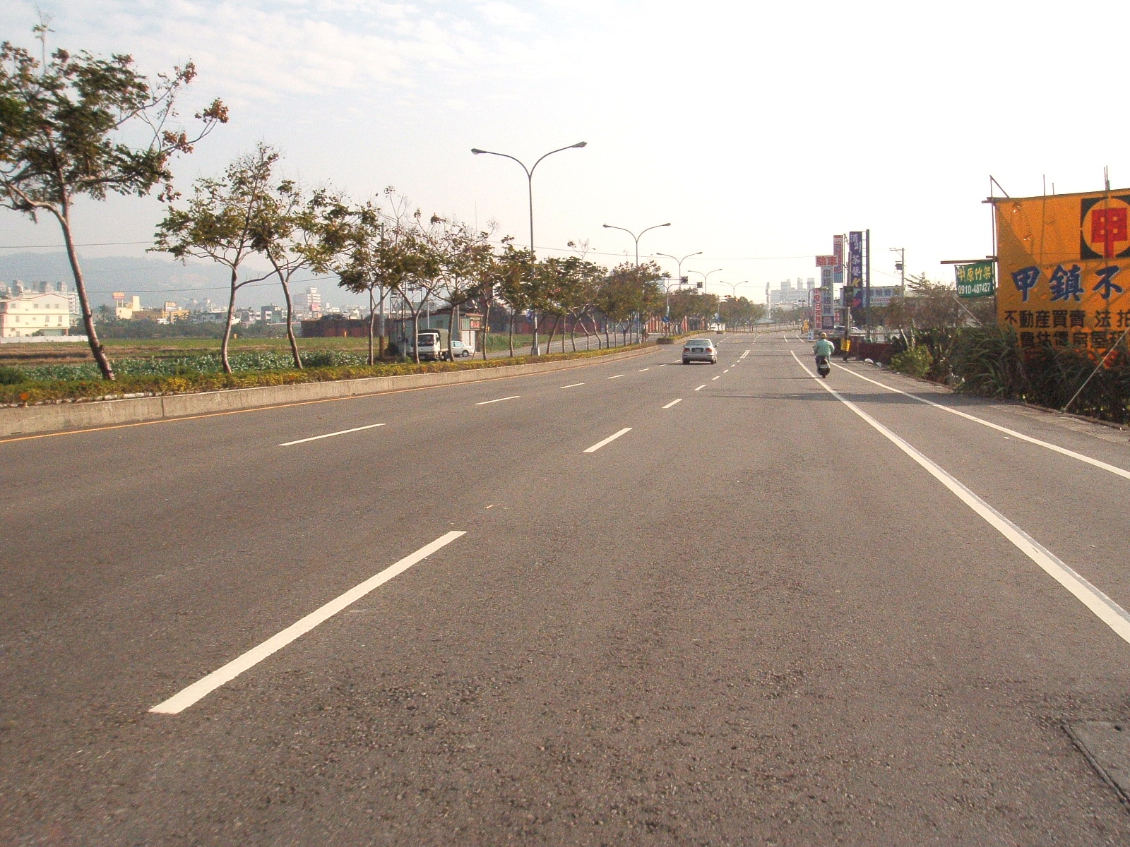 Xinfeng Road,Caotun Township,Nantou County,Taiwan(R.O.C.)